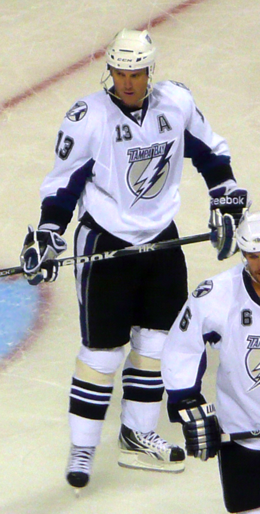 Pavel Kubina of the Tampa Bay Lightning skates against the Montreal Canadiens at the Bell Centre in Montreal, Quebec.